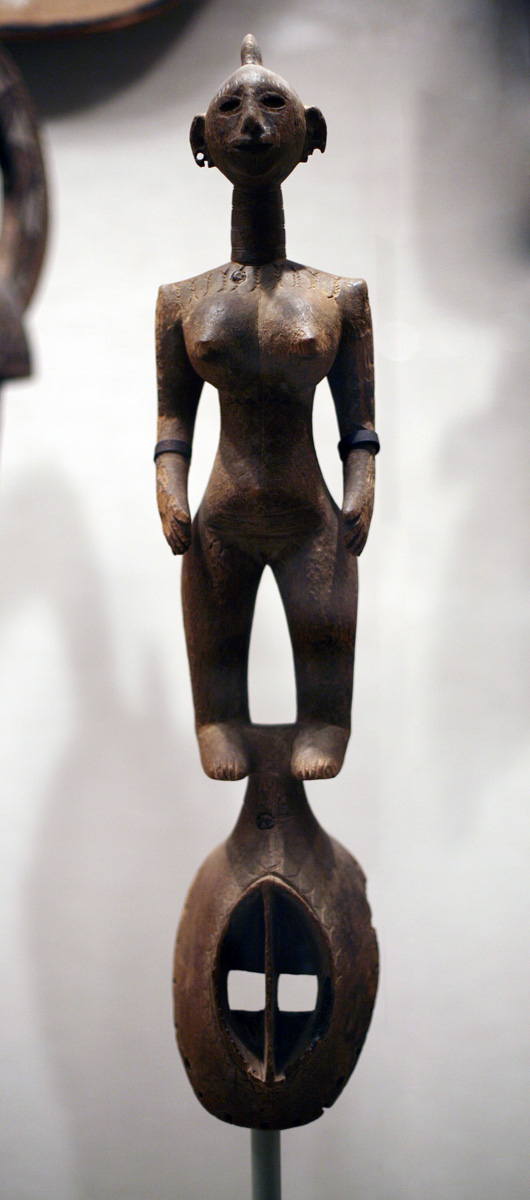 Mask: Female Figure (Karan-wemba), 19th–20th century Burkina Faso; Mossi Wood, metal; H x W x D: 29 1/2 x 6 x 5 1/4in. (74.9 x 15.2 x 13.3cm) The Metropolitan Museum of Art, New York, The Michael C. Rockefeller Memorial Collection, Bequest of Nelson A. Rockefeller, 1979 (1979.206.84) View at the Metropolitan Museum of Art website Wikipedia Loves Art at the Metropolitan Museum of Art This photo of item # 1979.206.84 at the Metropolitan Museum of Art was contributed under the team name "shooting_brooklyn" as part of the Wikipedia Loves Art project in February 2009. Metropolitan Museum of Art The original photograph on Flickr was taken by shooting brooklyn—please add a comment to the original Flickr page whenever a use has been made on Wikipedia or another project. Project galleries on Flickr: this institution, this team